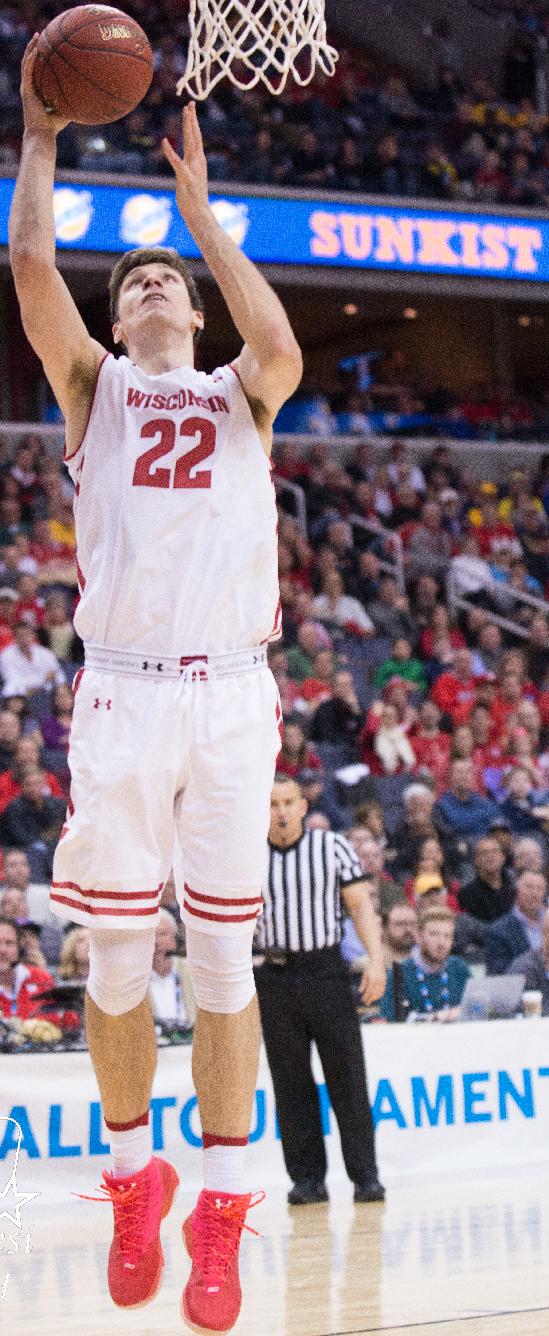 Ethan Happ - Wisconsin